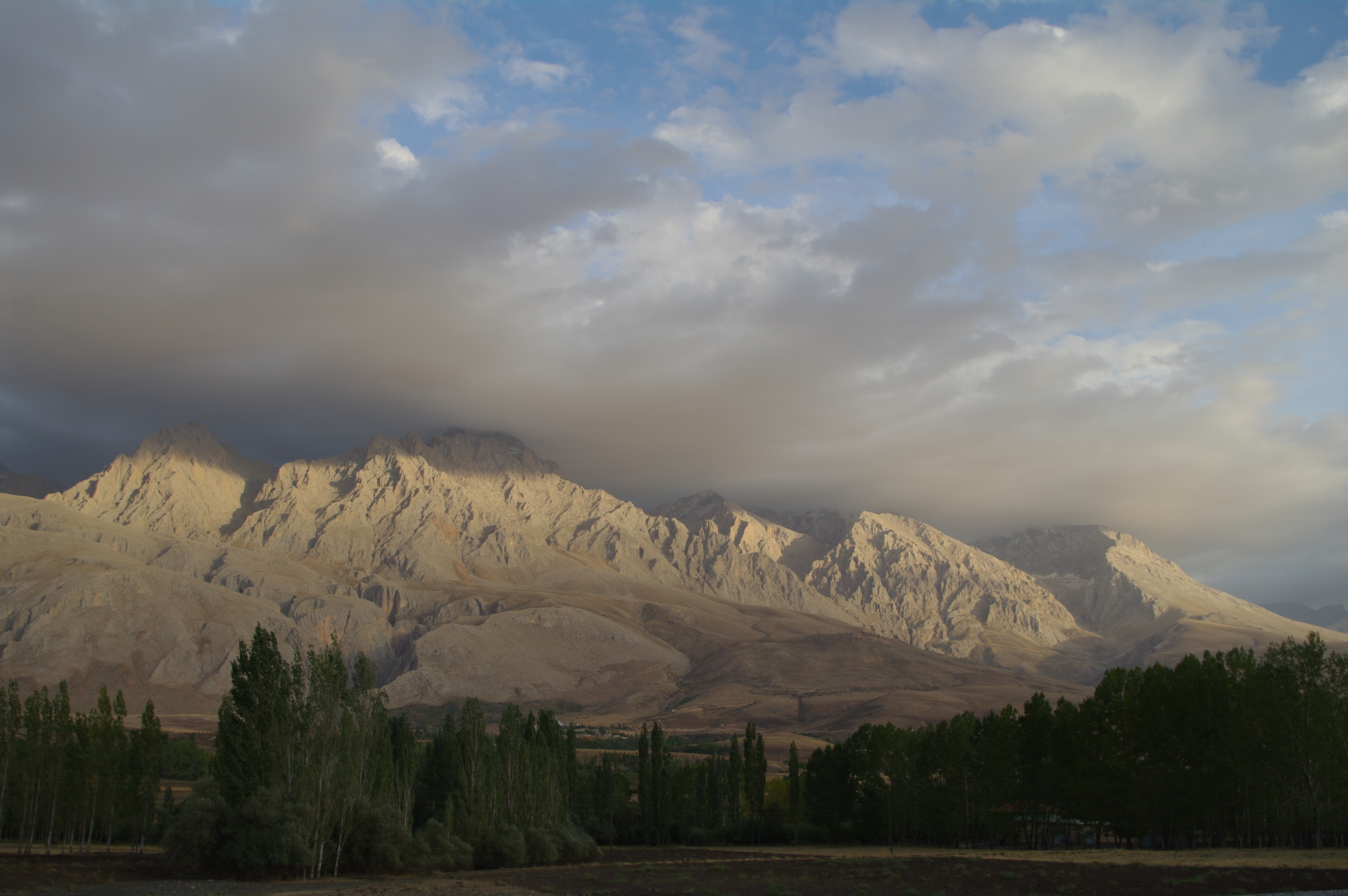 Aladaglar is a mountains chain in the middle section of Taurus Mountains in southern Turkey. "Aladaglar" means multicolor speckled mountains in Turkish.